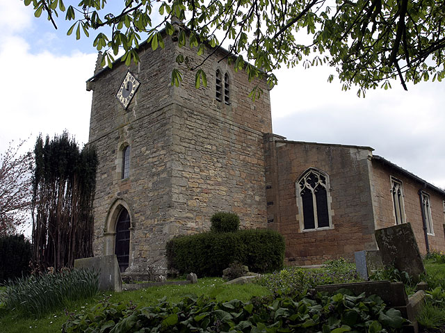 Parish church of St Michael the Archangel, Halam, Nottinghamshire, seen from the west